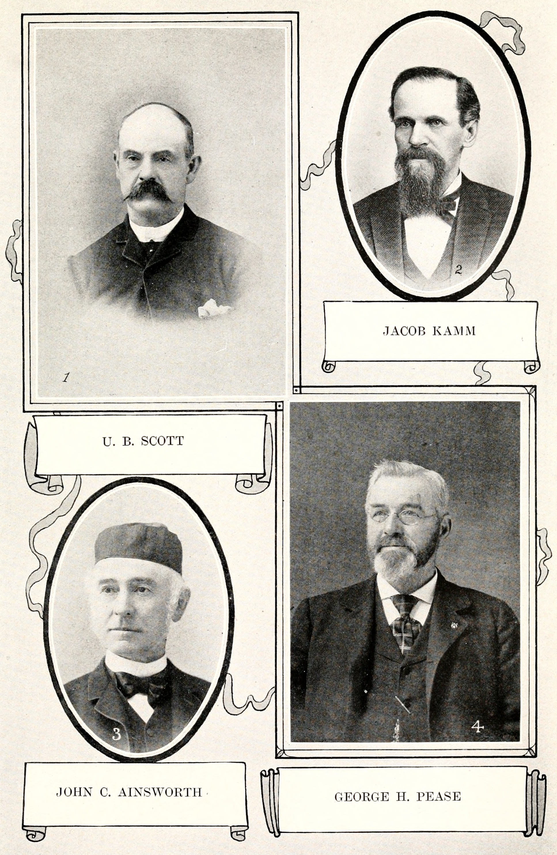 People in the steamboat indistry from Portland, Oregon, Its History and Builders volume 1